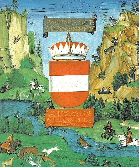 Detail of the cover of the privilegium maius for Emperor Maximilian I.